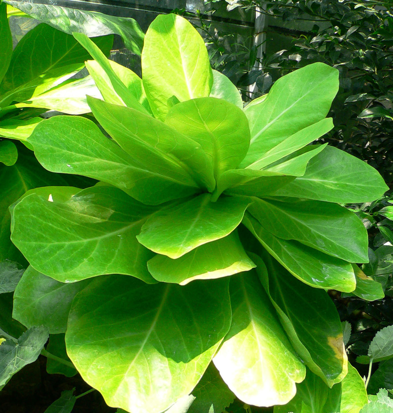 Brighamia insignis